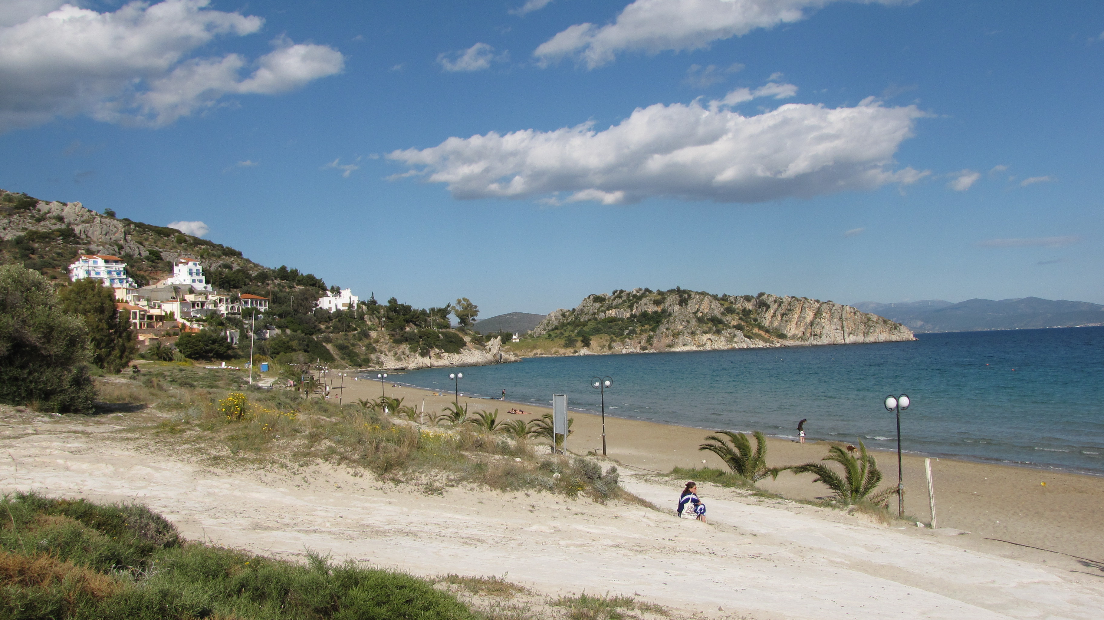 Village of Tolo in Greece on the Peloponnese peninsula.